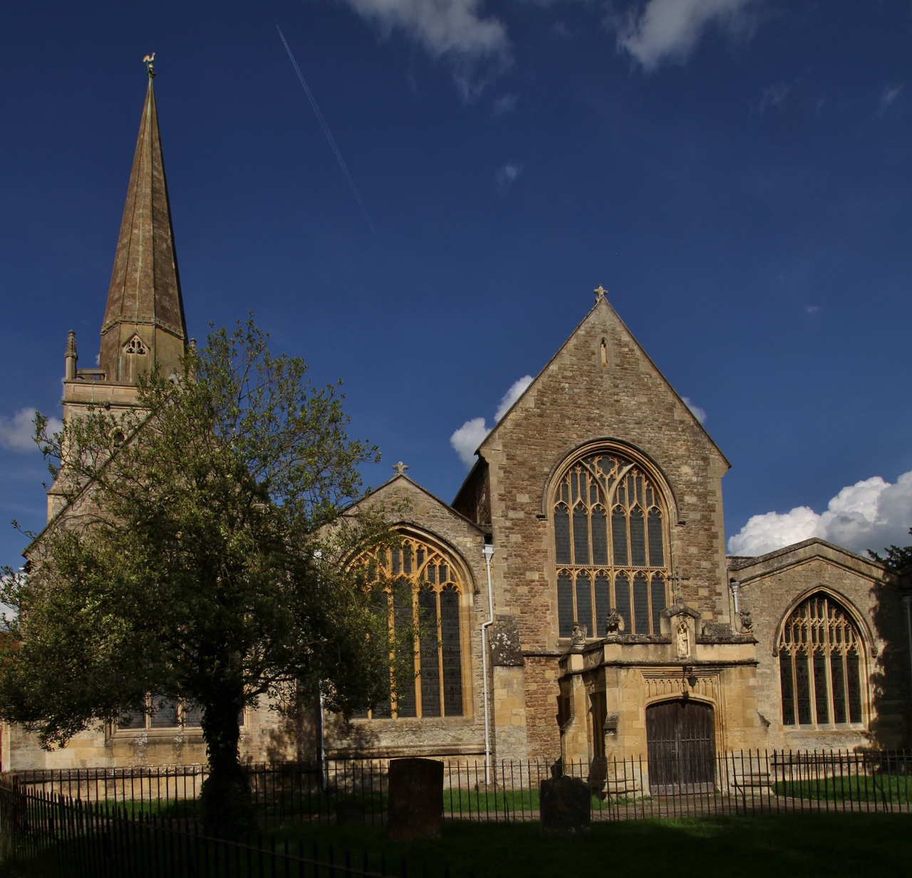 St Helen' parish church, Abingdon, Oxfordshire (formerly Berkshire), seen from the west